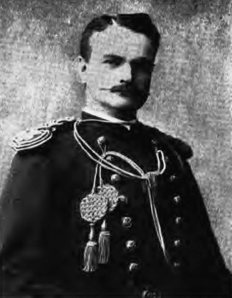 Photograph of Colonel Edwin A. McAlpin when he assumed command of the New York 71st Regiment, New York National Guard in 1885